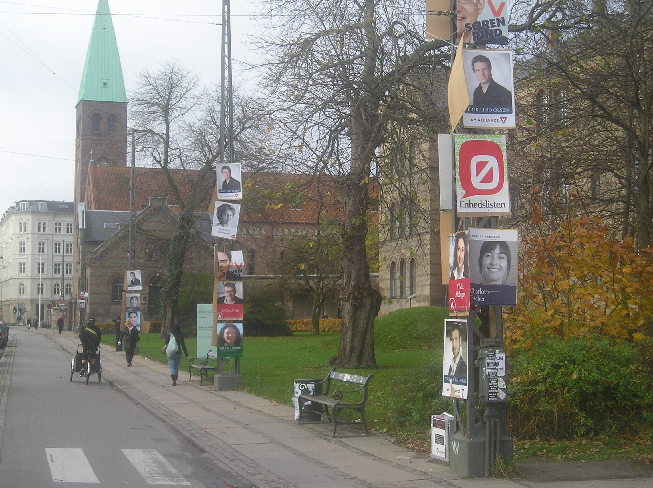 Election posters for the election to the Danish parliament Folketinget, November 2007. Øster Farimagsgade with the church Sankt Andreas Kirke in the background and the former Kommunehospitalet at the right, Copenhagen.